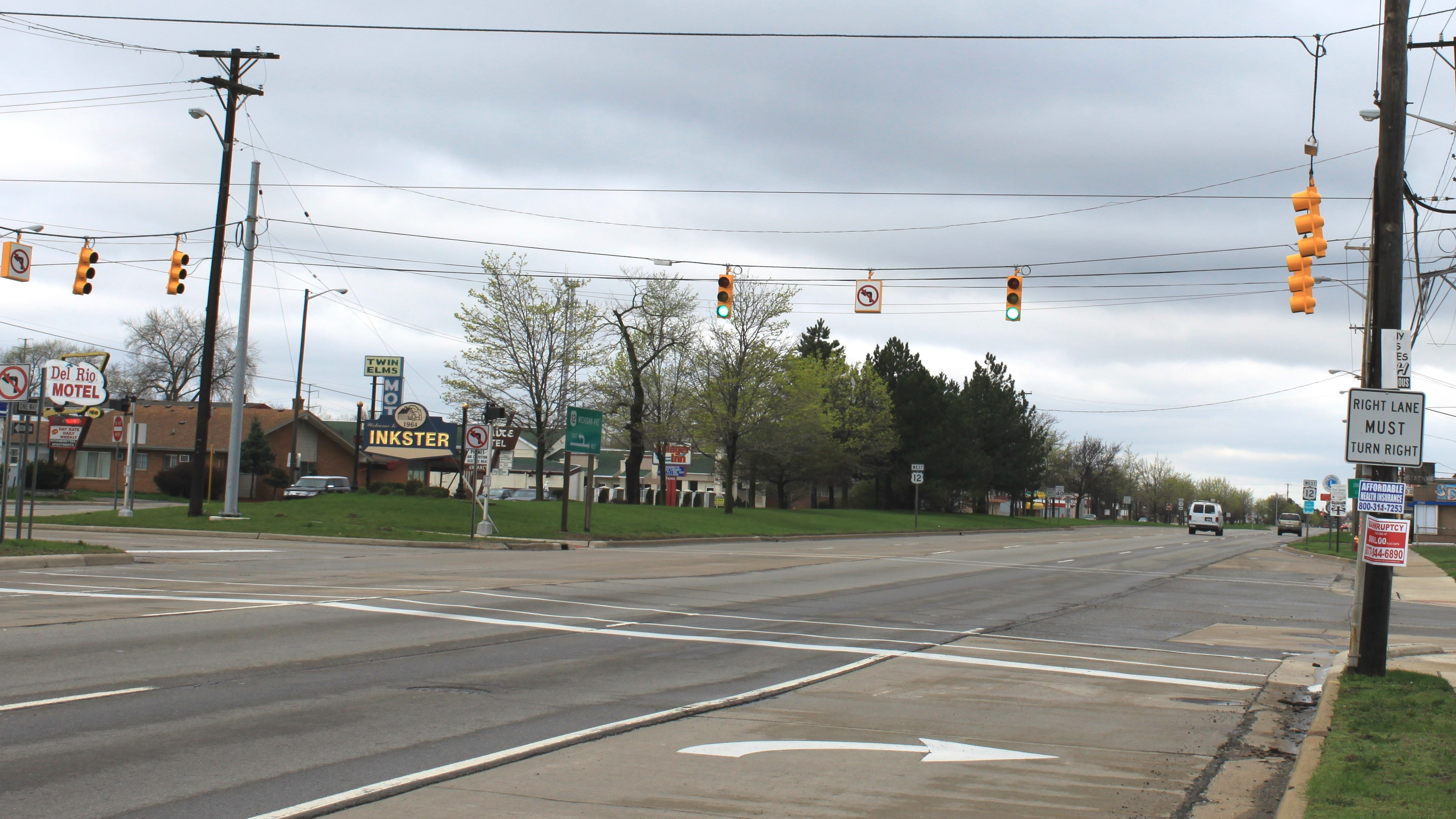 Michigan Avenue (U.S. 12) at Beech Daly Road, facing west, Inkster Michigan